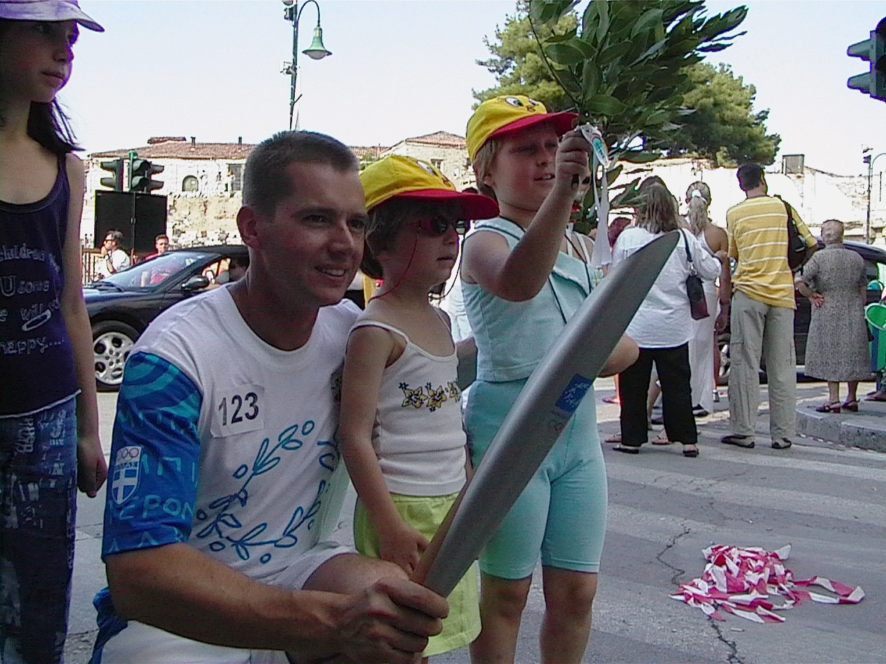 Souda Bay, Crete, Greece (July 31, 2004) – Lt. Cmdr. Demetries A. Grimes poses for a picture with young Olympic fans. Grimes, a Greek-American, ran in the torch relay held in Larissa, Greece, on Saturday, July 24, 2004. The only sailor participating in Olympic festivities, Grimes application for the torch-running spot included an essay on his beliefs, Olympic values of peace, friendly competition, and brotherhood. U.S. Navy photo by Journalist 3rd Class Jeffrey S. Campbell (RELEASED)